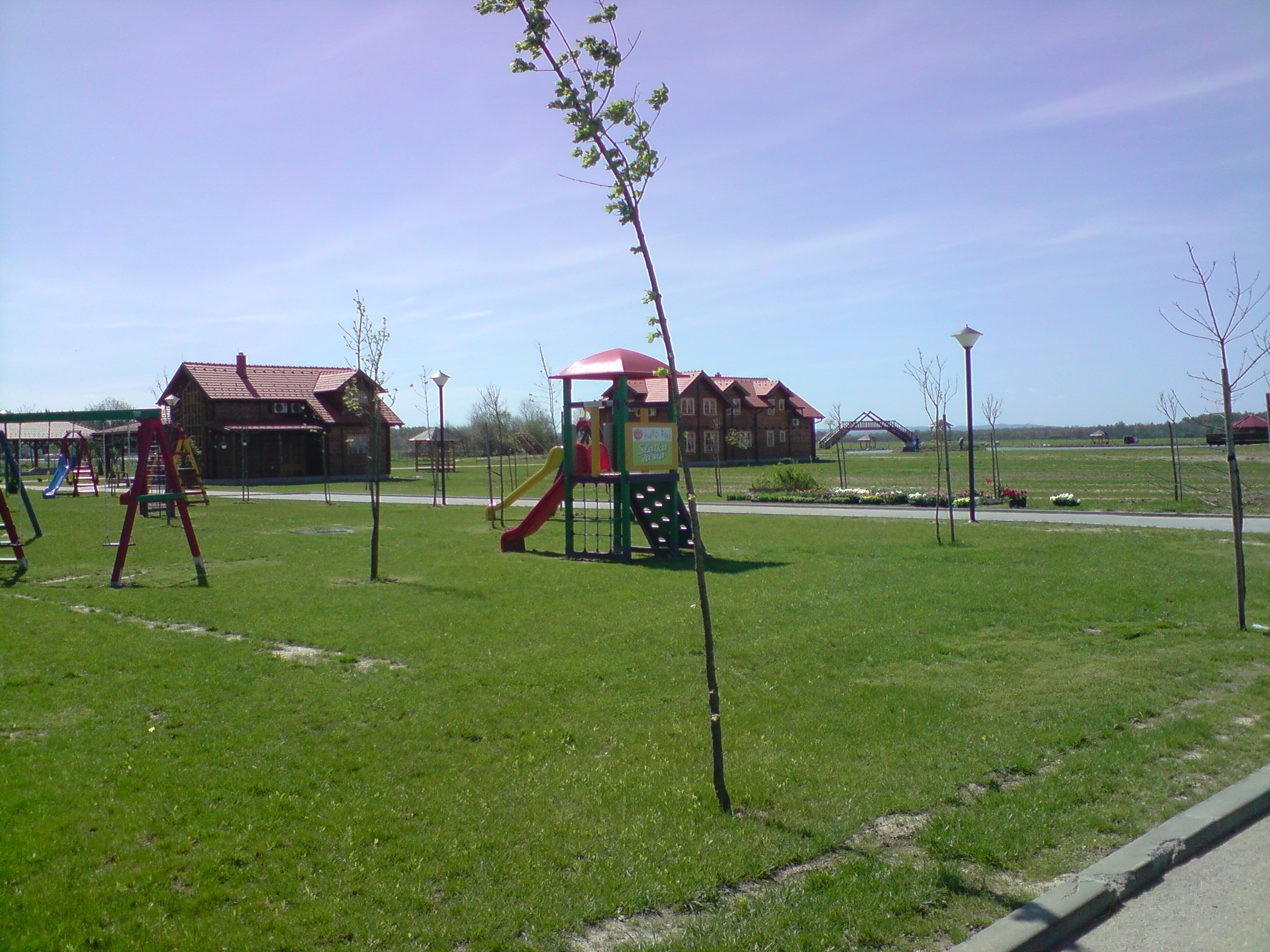 Krašograd